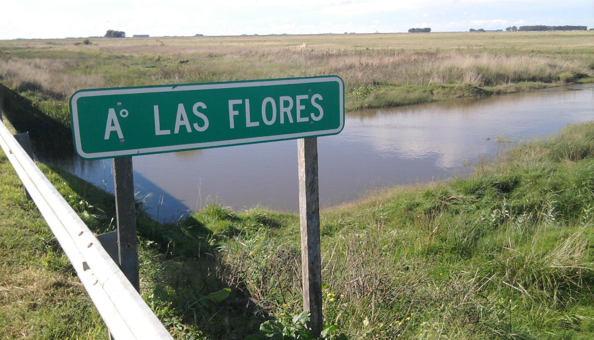 Las Flores stream